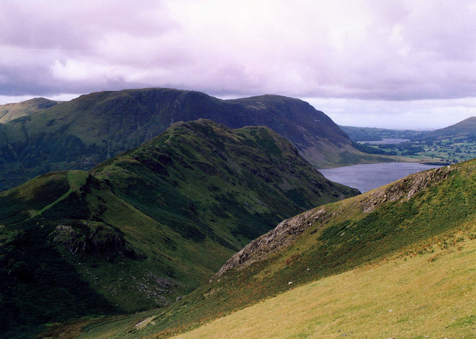 Personal picture taken by Mick Knapton